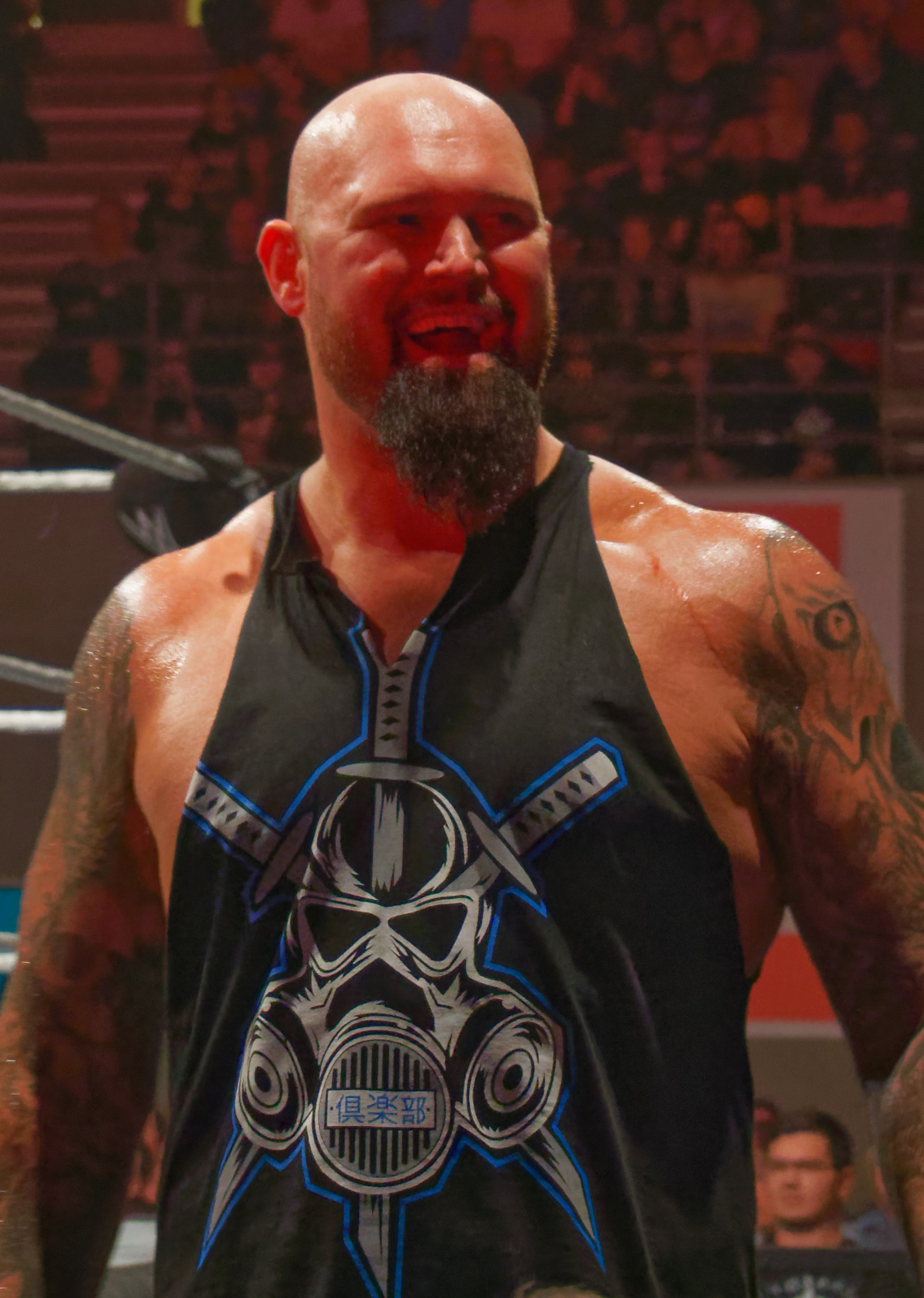 Luke Gallows at a WWE show in Liège on 12 May 2017